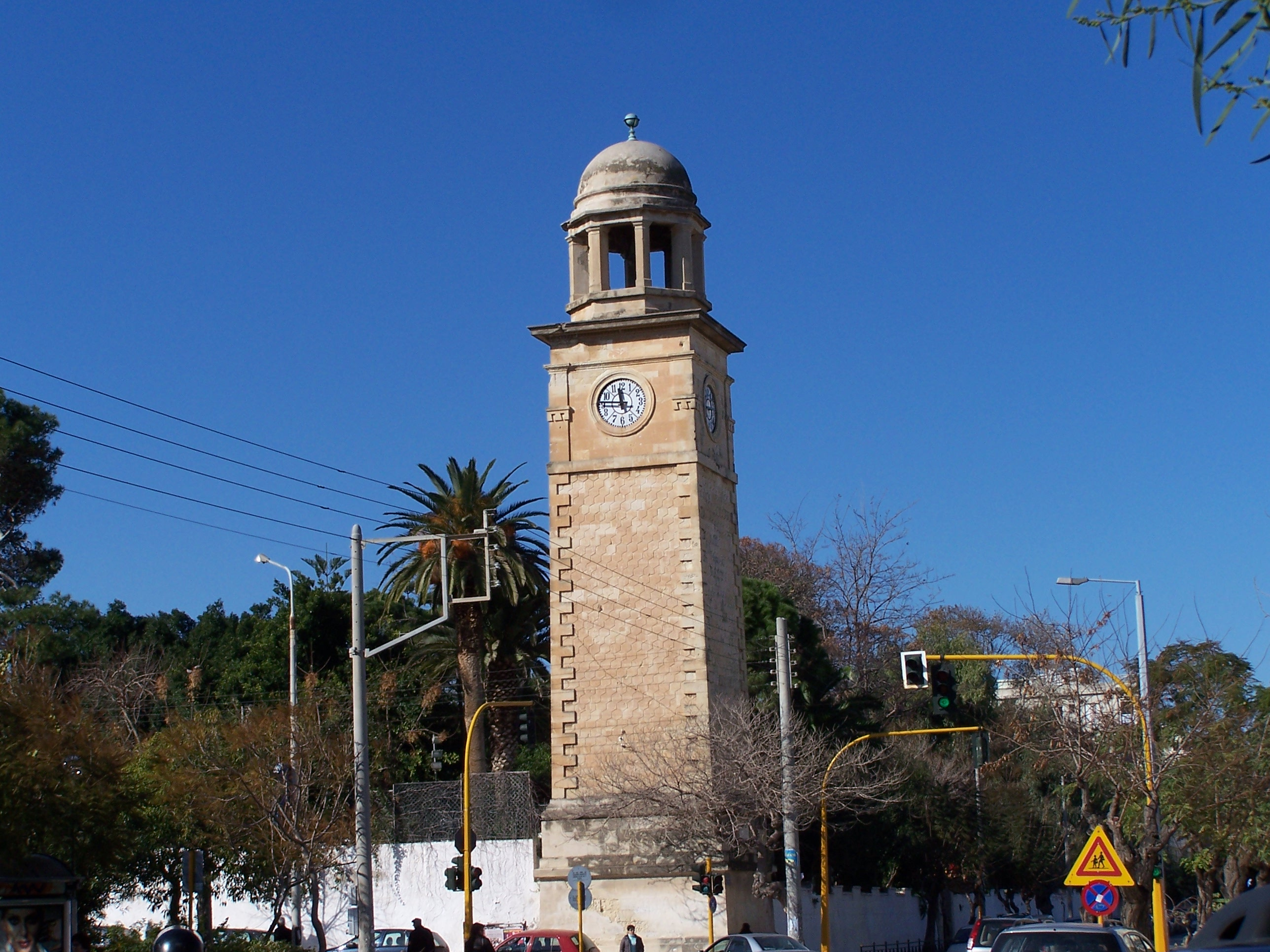 Old clock near Kypos.